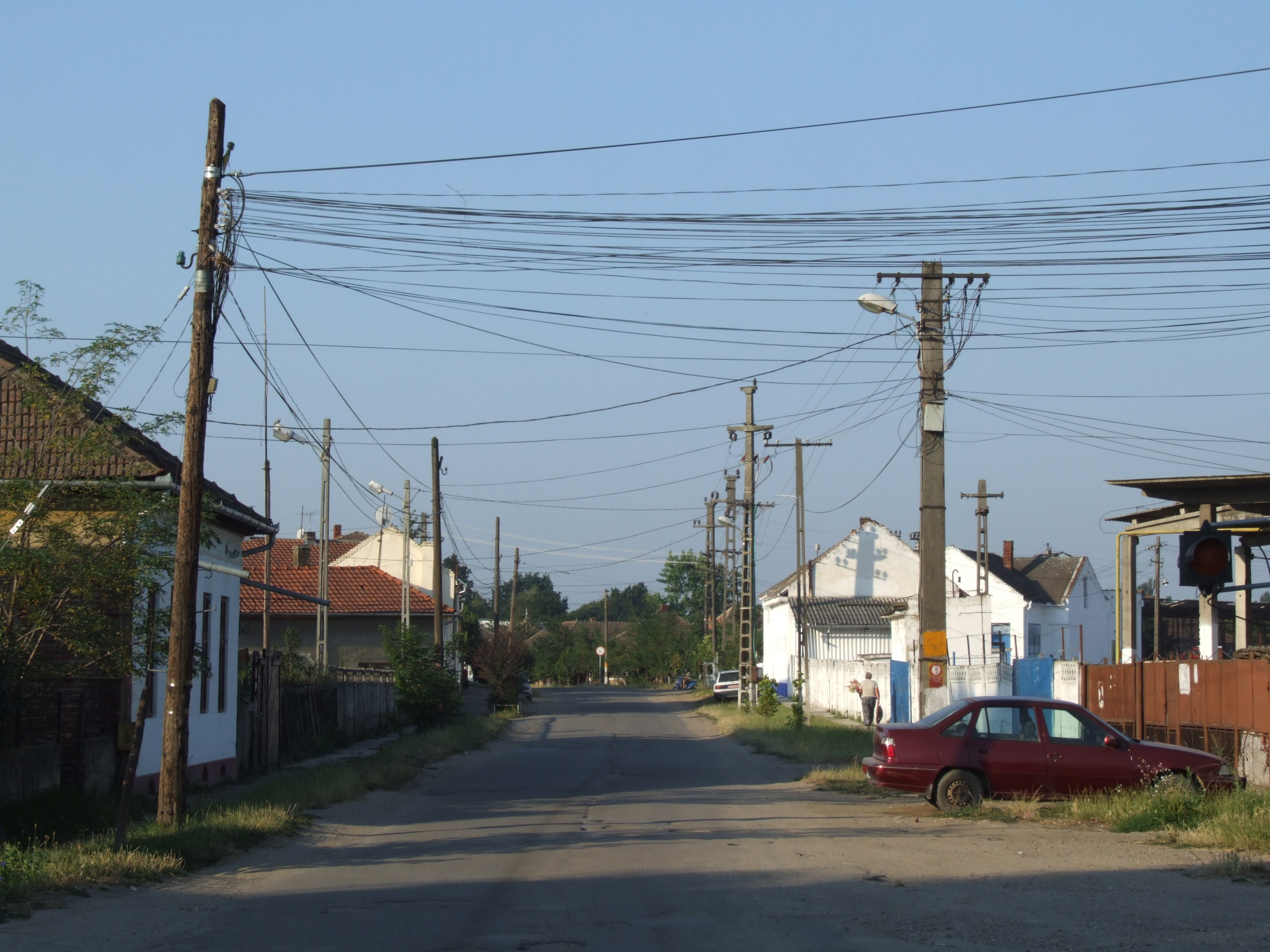 Valea lui Mihai (Érmihályfalva) - street